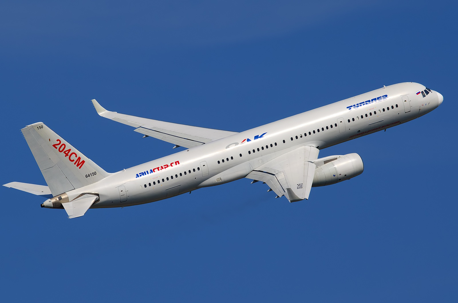 A Tupolev Tu-204SM during a demo flight at MAKS-2011.